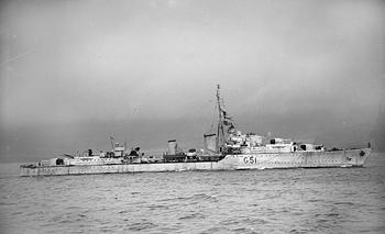 British destroyer HMS Ashanti (F51) going out on patrol at Hvalfjord, Iceland.